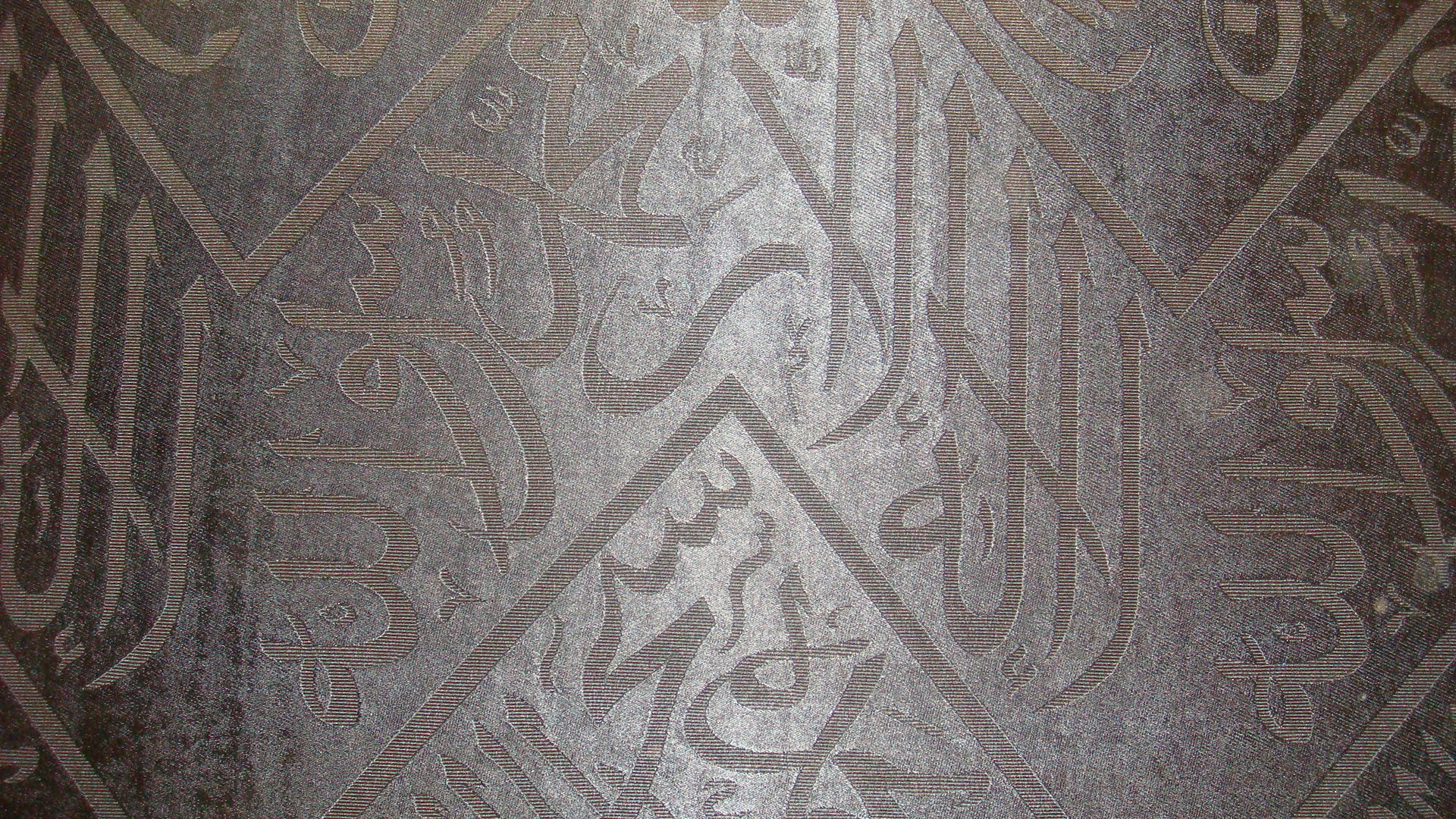 Al-Masjed Al-Nabawi, Hujrah cover